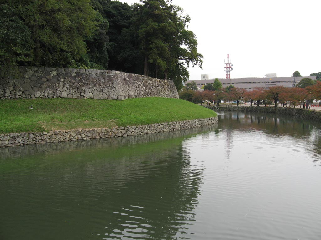 Hikone Casle Inubashiri (catwalk)